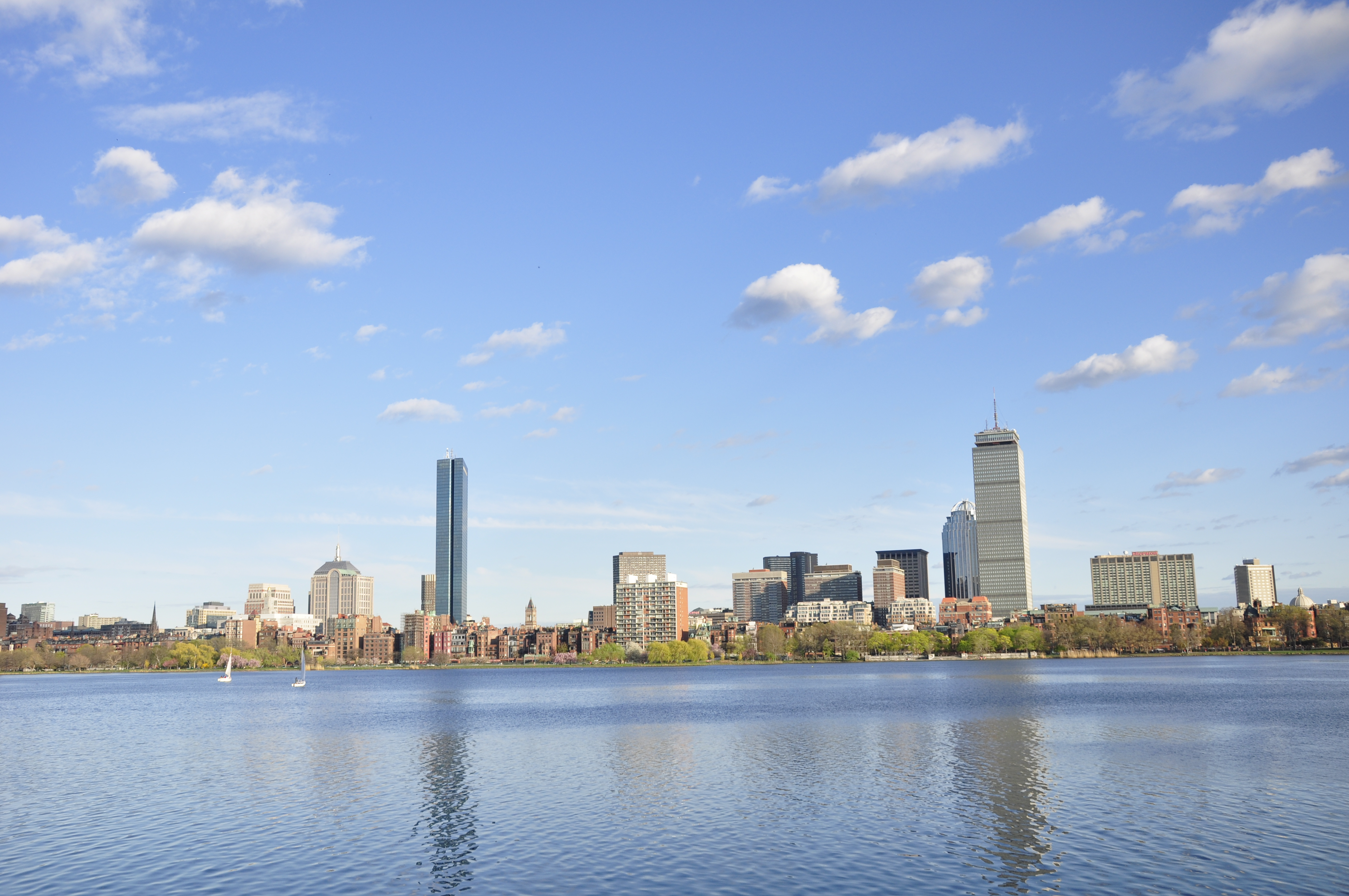 Copley and Prudential, Boston